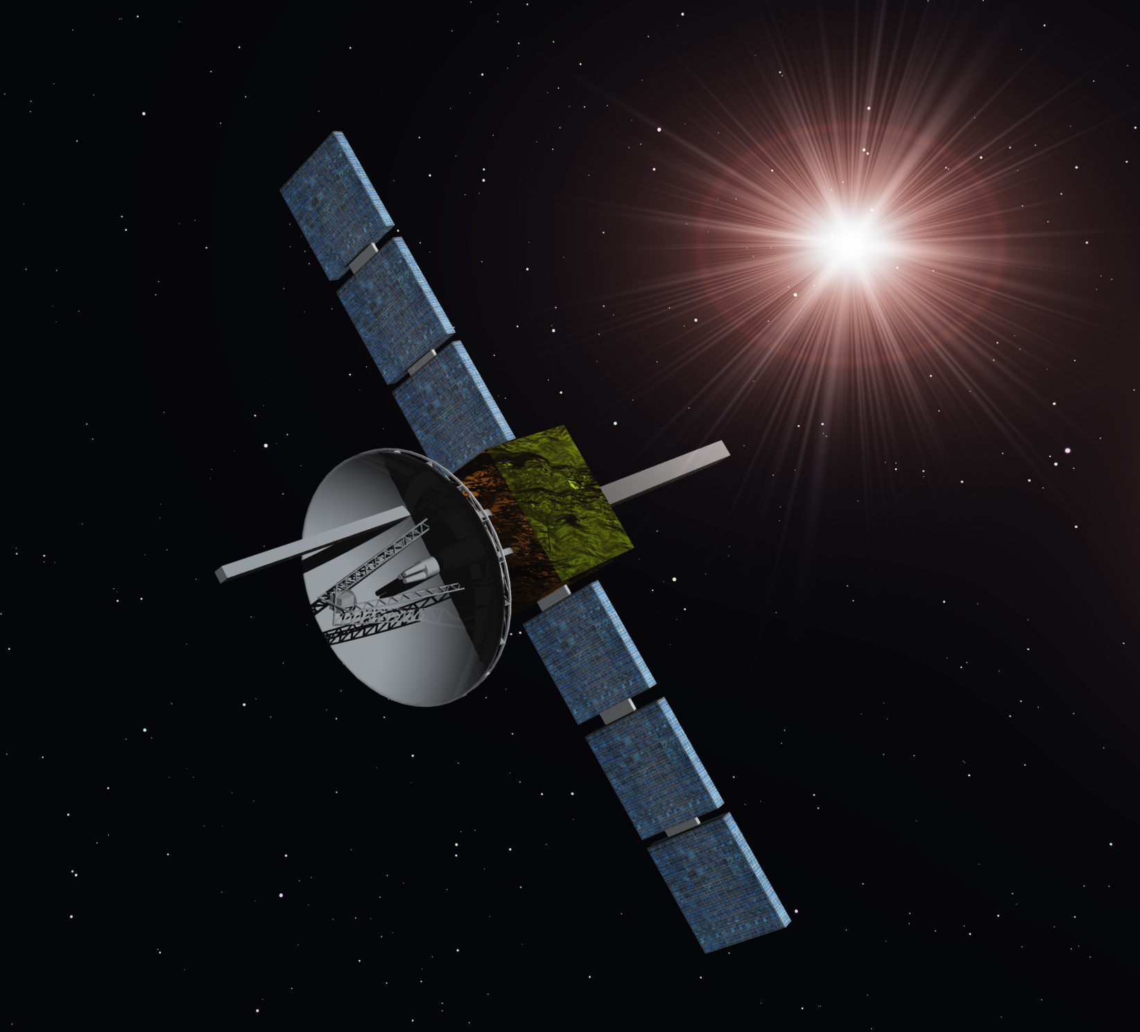 Nozomi (のぞみ) (Japanese for "Wish" or "Hope," and known before launch as Planet-B) was planned as a Mars-orbiting aeronomy probe, but was unable to achieve Mars orbit due to electrical failures. Operation was terminated on December 31, 2003. I couldn't find a free use image of this spacecraft, so to the best of my limited ability I handcrafted an obj file and rendered it in a 3D graphics program in order to represent what this spacecraft might have looked like in space.